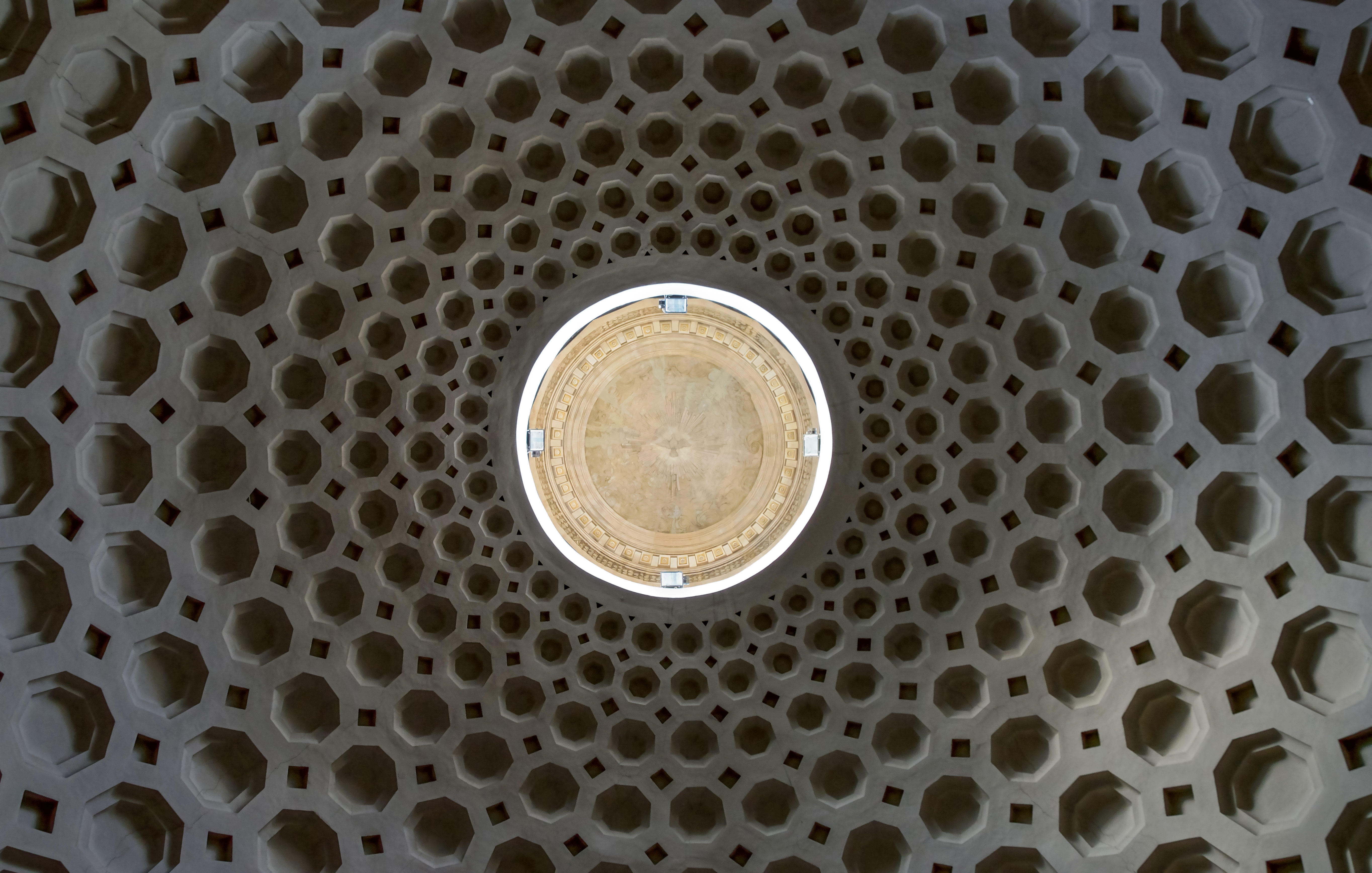 San Bernardo alle Terme - ceiling